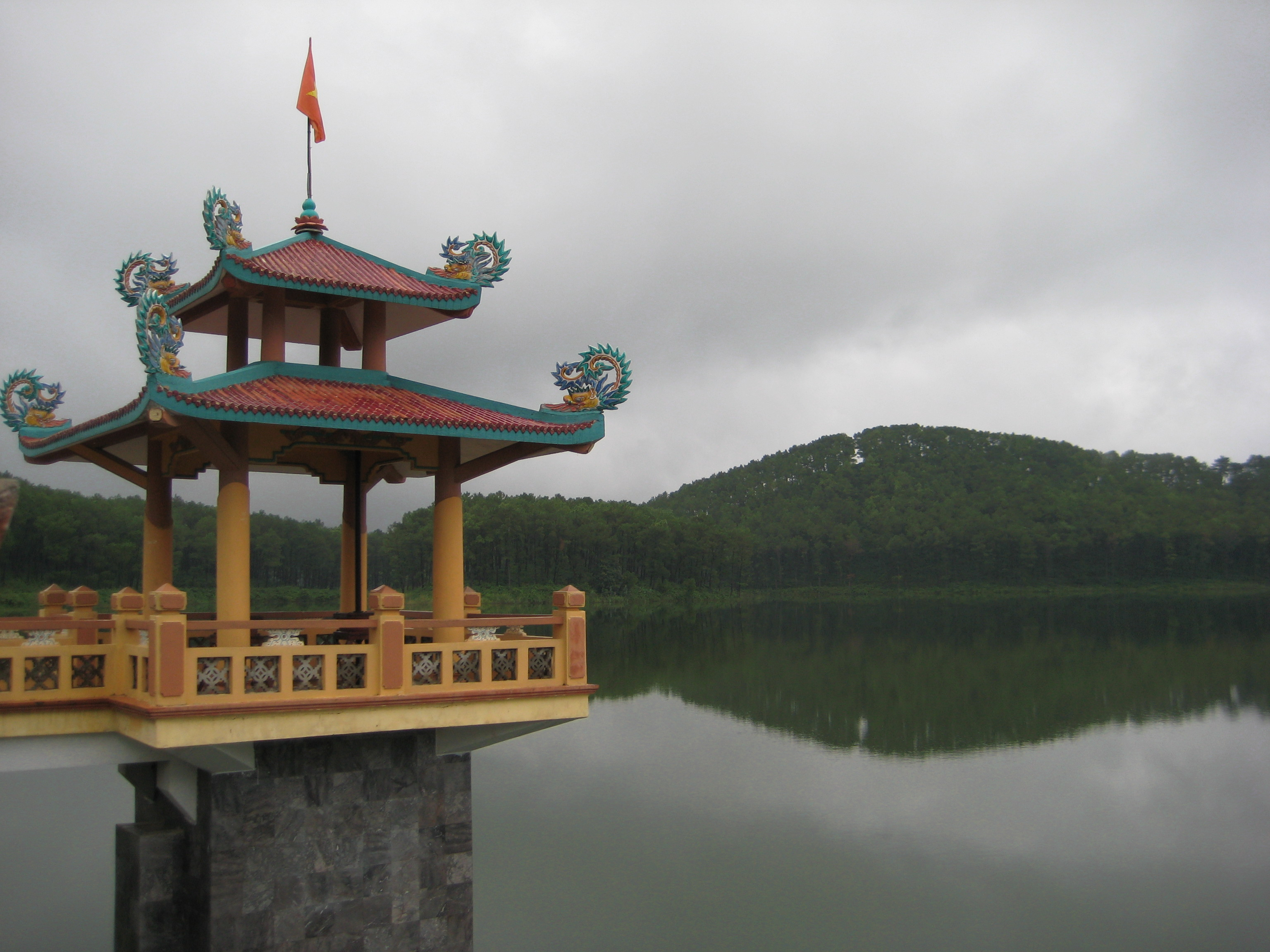 Dong Chuong Lake in Nho Quan, Ninh Binh Province